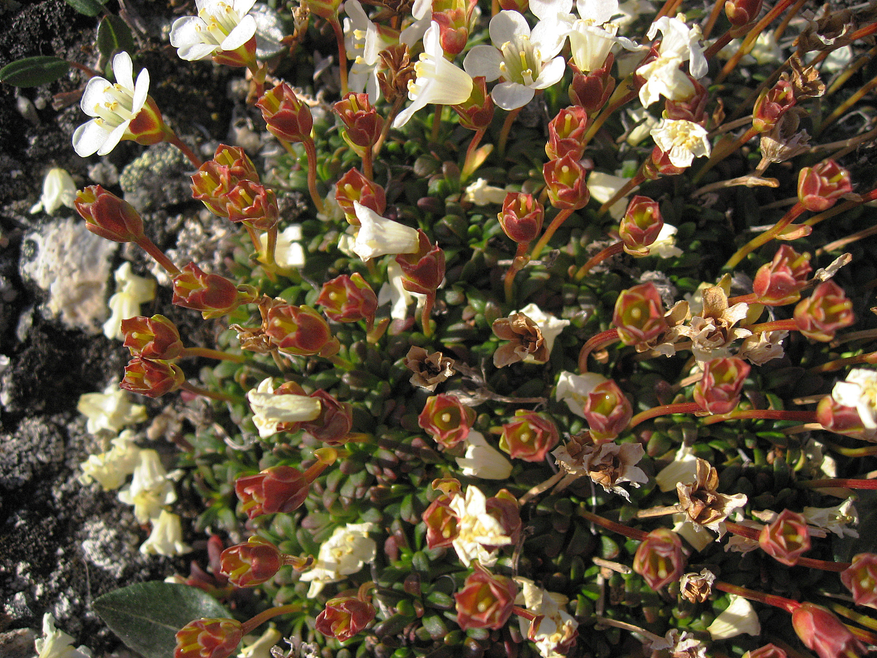 Pincushion plant (Diapensia lapponica) photographed near Upernavik, Greenland.